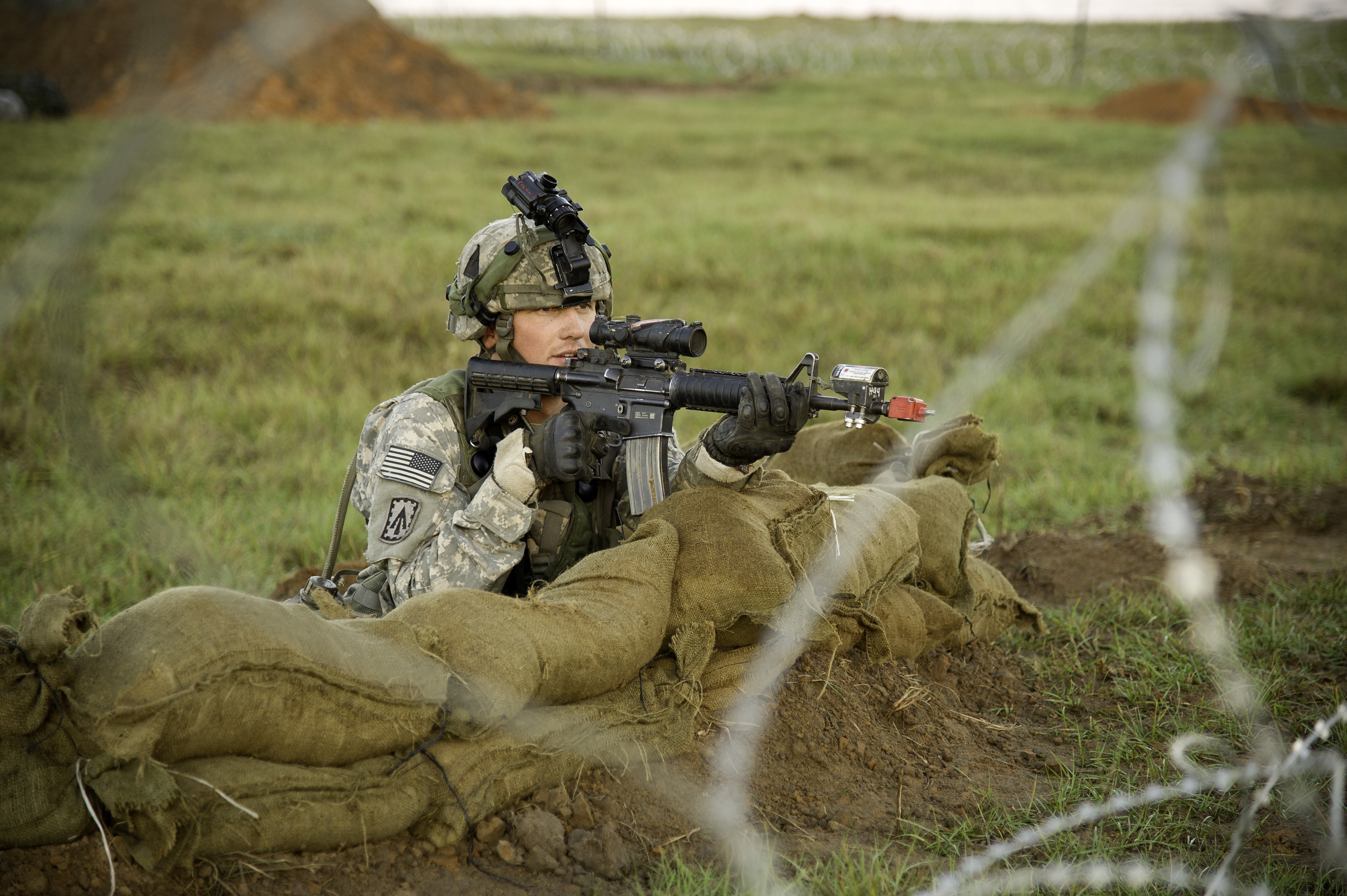 U.S. Army Staff Sgt. Brandon Collins, assigned to Battle Battery, 2-44 Air Defense Artillery Battalion, defends a fixed fighting position during a field exercise at the Joint Readiness Training Center, Fort Polk, La., Oct. 18, 2012.